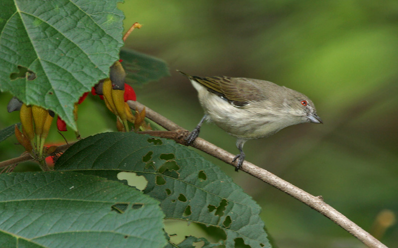 Thick-billed Flowerpecker Dicaeum agile (Pun: Full chuki, M.P. Che, Guj: Phul sunghani, Jadichanch fulsunghani, Mar: Phultocha, Ta: For flowerpeckers -Poon-chittu, Poon-kothi, Te: Chittu-jitta, Poopudupu jitta, Mal: Ittakkannikuruvi) on Helicteres isora - East Indian screw tree, nut-leaved screw tree • Bengali: antamora • Hindi: bhendu, damni, jonka phal, kapasi, मरोड़ फल maror phal • Kannada: yedamuri • Malayalam: isora-murri, valampiri • Marathi: अटी ati, धामणी dhamani, kapaisi, केवण kewan, मुरडशेंग muradsheng • Oriya: murmuria • Sanskrit: अवर्तनि avartani, मृग शृङ्ग mrigashringa • Sindhi: vurkatee • Tamil: வலம்புரி valampuri • Telugu: నులితడ nulitada • Urdu: marorphali - in Narsapur, Medak district, Andhra Pradesh, India.